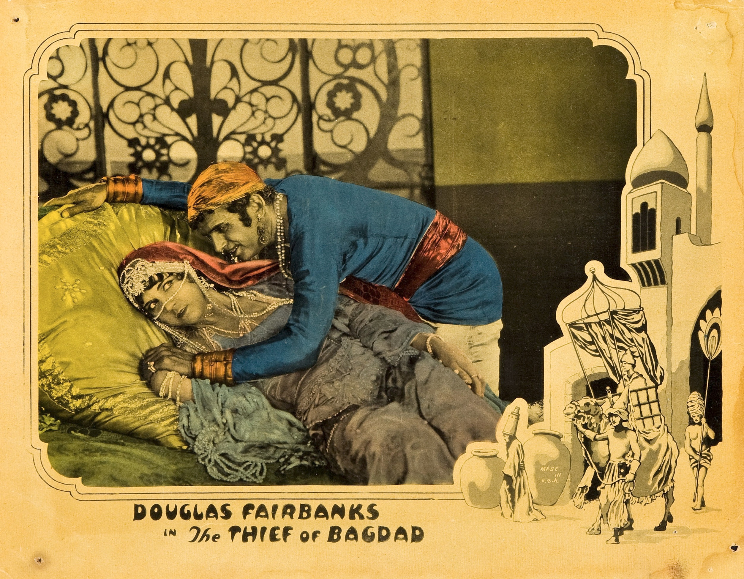 The Thief of Bagdad is a 1924 American swashbuckler film directed by Raoul Walsh and starring Douglas Fairbanks. This is a lobby card for the film.